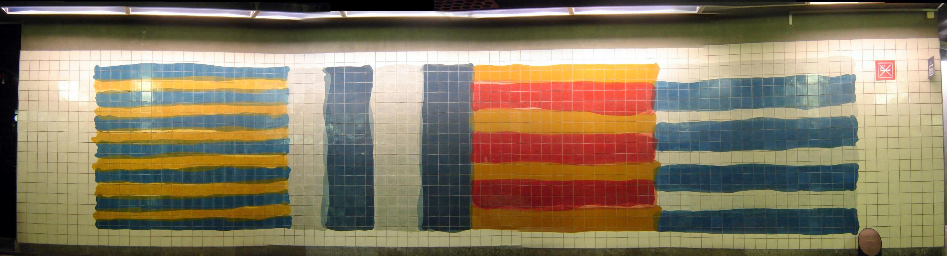 Tile panel on the access to the underground on the Orient station in Lisbon, Portugal